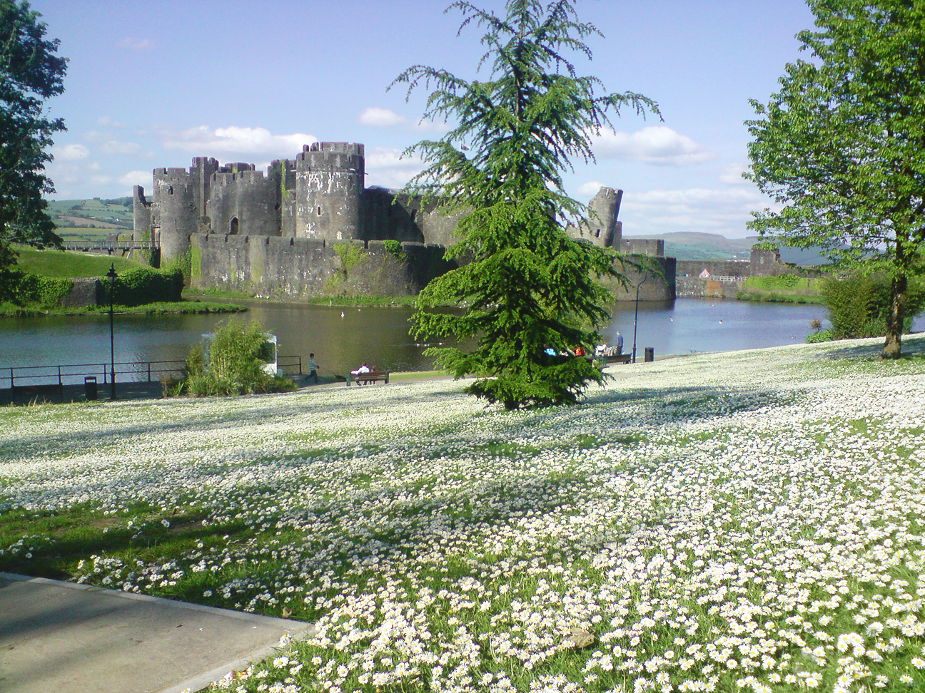 Picture of Caerphilly Castle (Caerphilly, Wales). The area surrounding the castle is covered with flowers (daisies).